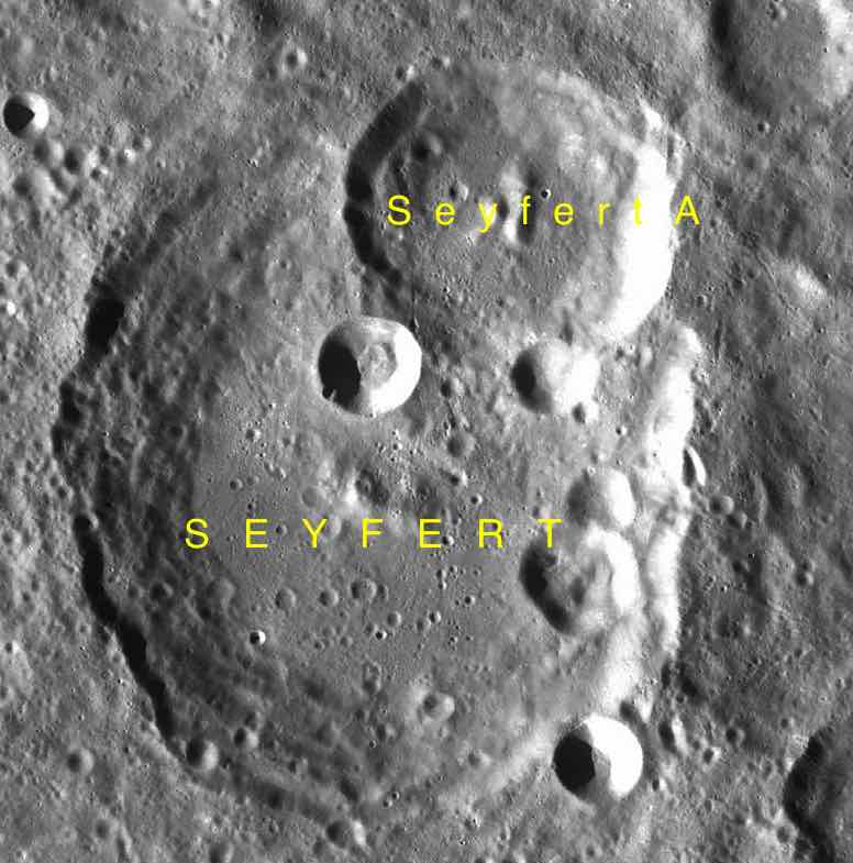 Part of the chart LAC-47 used for the presentation.